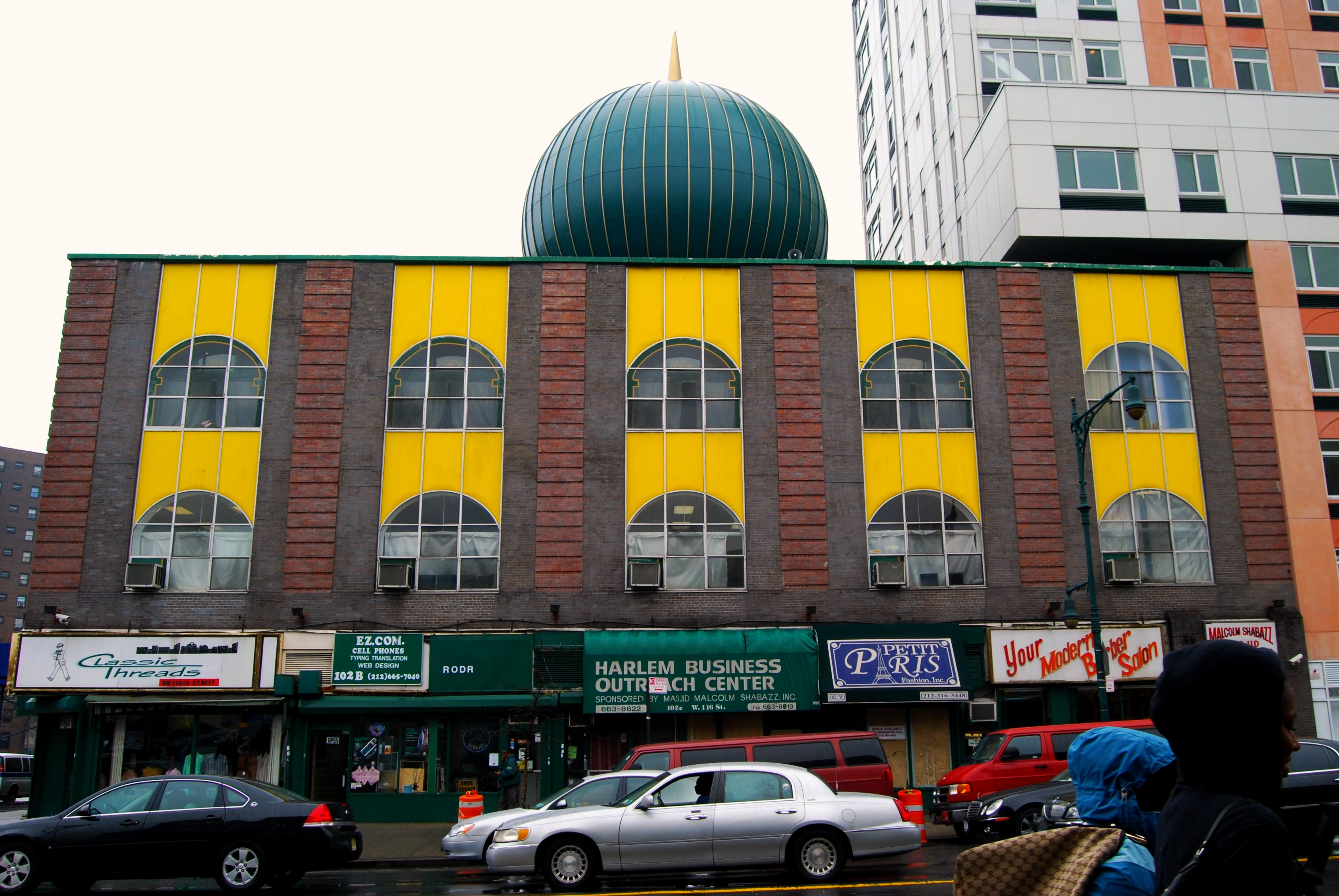 Looking south at Malcolm Shabazz Mosque on West 116th Street in Harlem, New York City, US. Formerly was known as Mosque No.7.